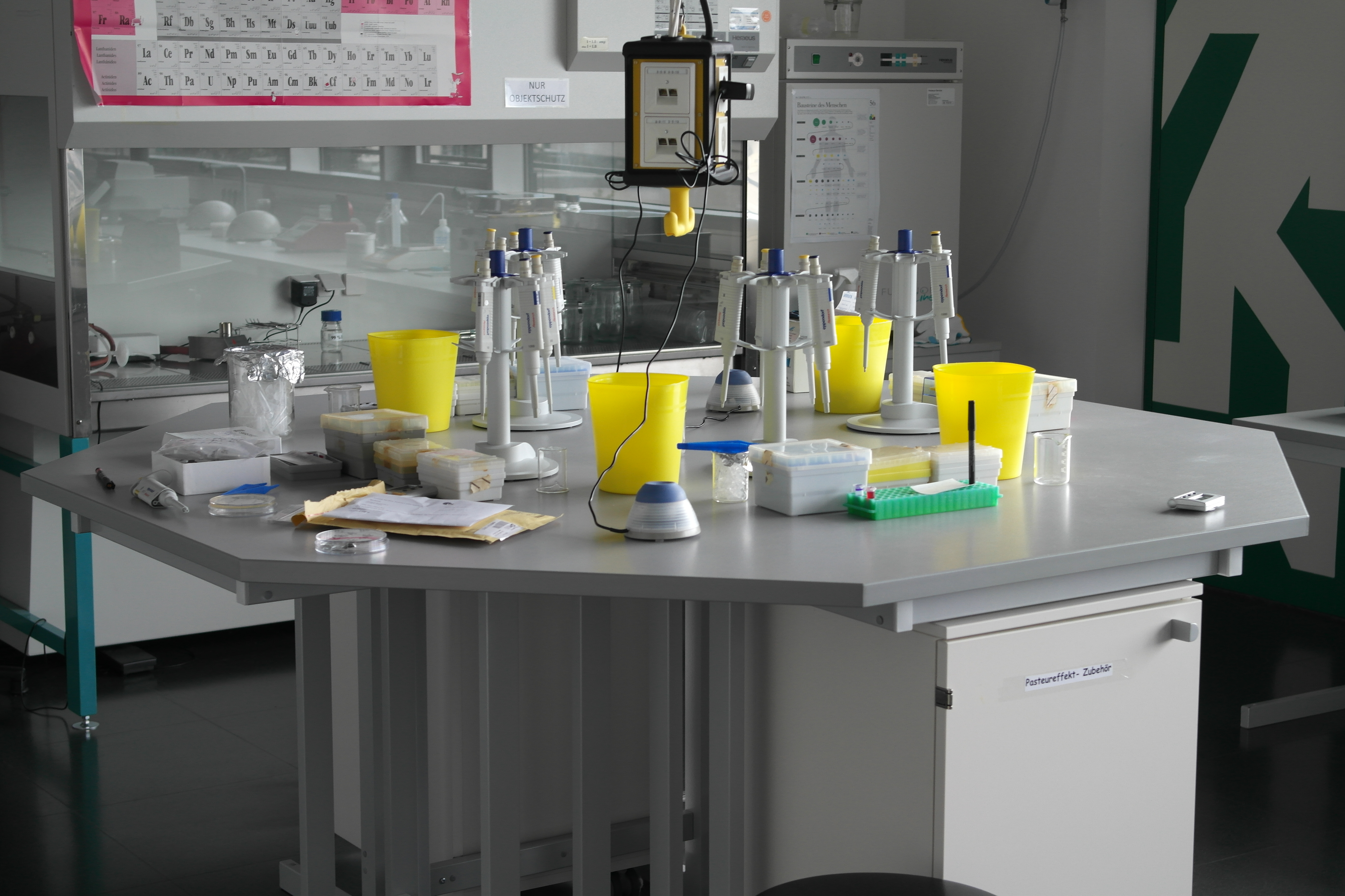 Biochemistry lab table, with automatic pipettes and other equipmentEesti: Biokeemia labori laud, millel on automaatpipette ja muid laboritarvikuid.